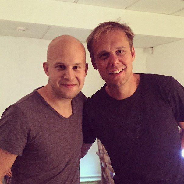 Alexander Popov with Armin Van Burren